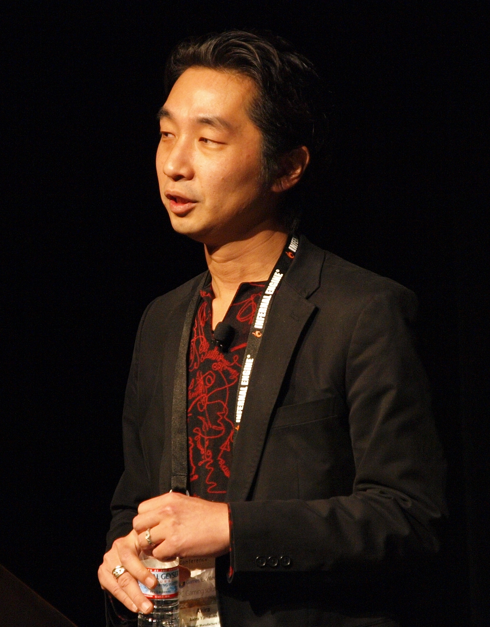 Akira Yamaoka at the Game Developers Conference in 2010 (third day), speaking at "As long as the audio is fun, the game will be too."